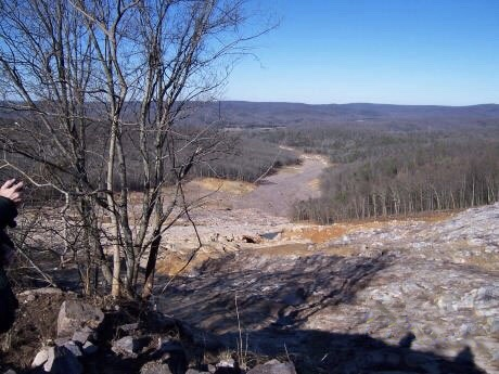 Description: This is a view of the path scoured by water flow from the breached Taum Sauk upper reservoir, as seen from atop Proffit Mountain. A broad swath was scoured to the bedrock as over a billion gallons of water poured down in less than half an hour. Source': Federal Energy Regulatory Commission[1]